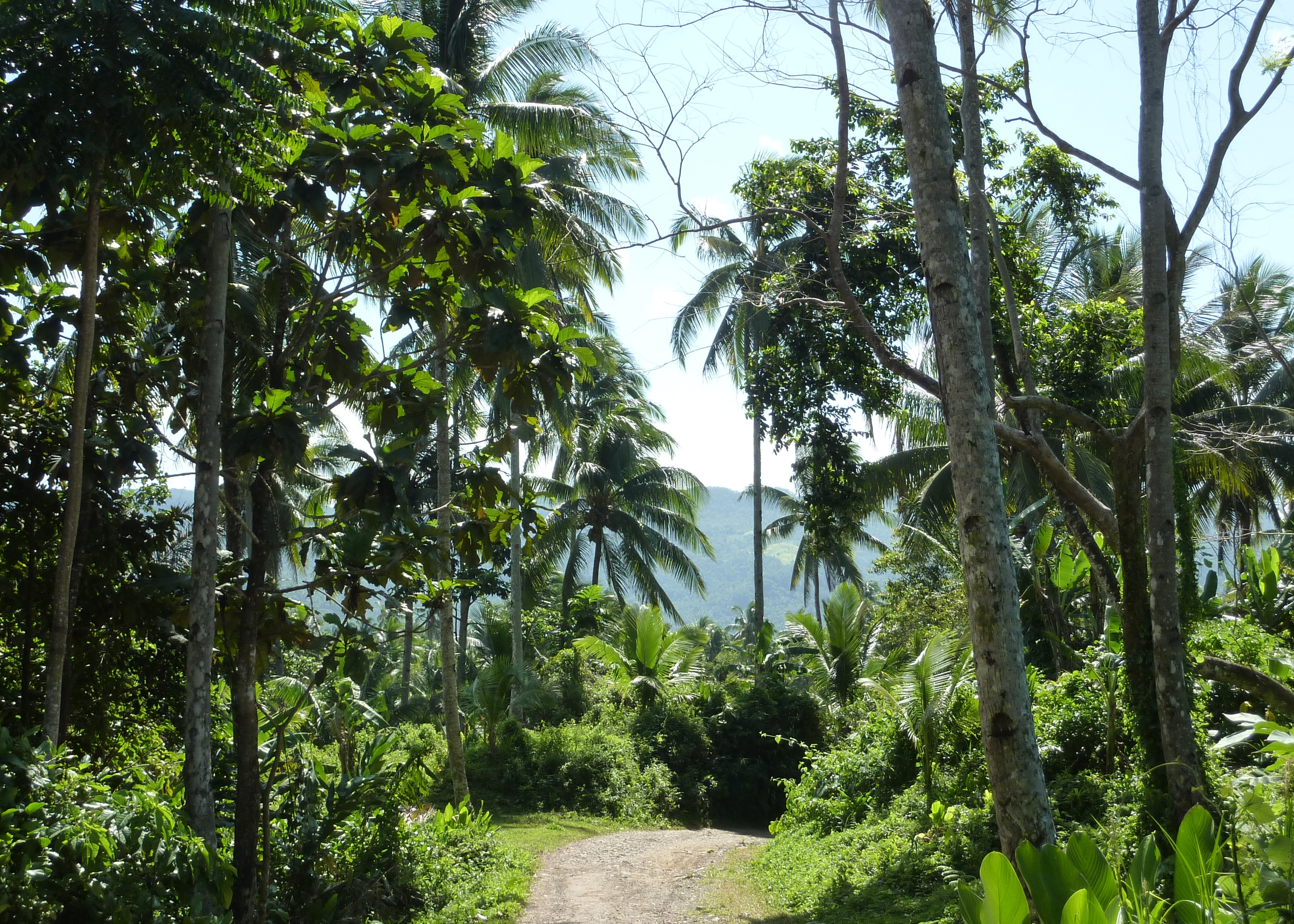 A road in the hills to the west of Tubod, Surigao del Norte.